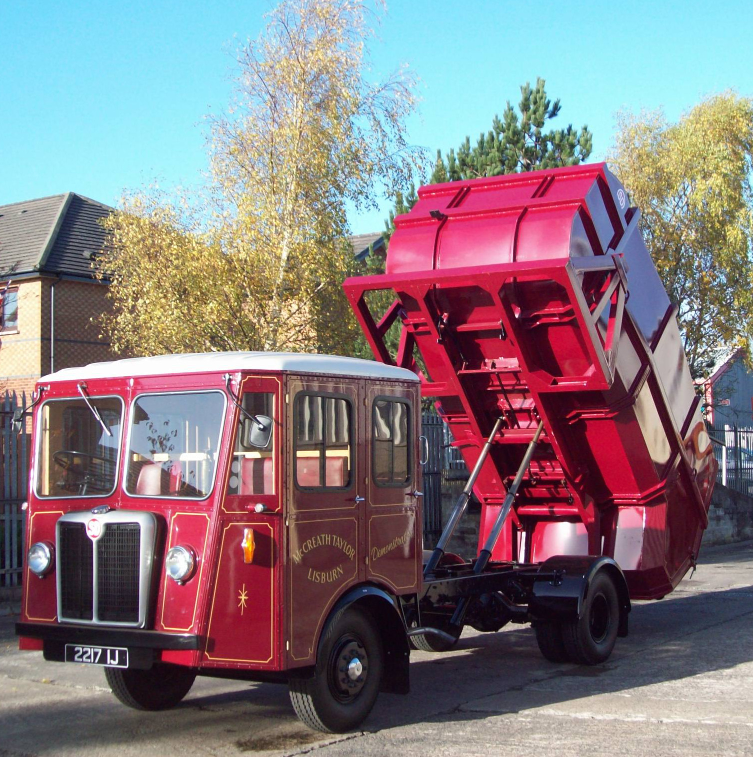 SD W type Fore & Aft tipper in Northern Ireland 12th November 2013